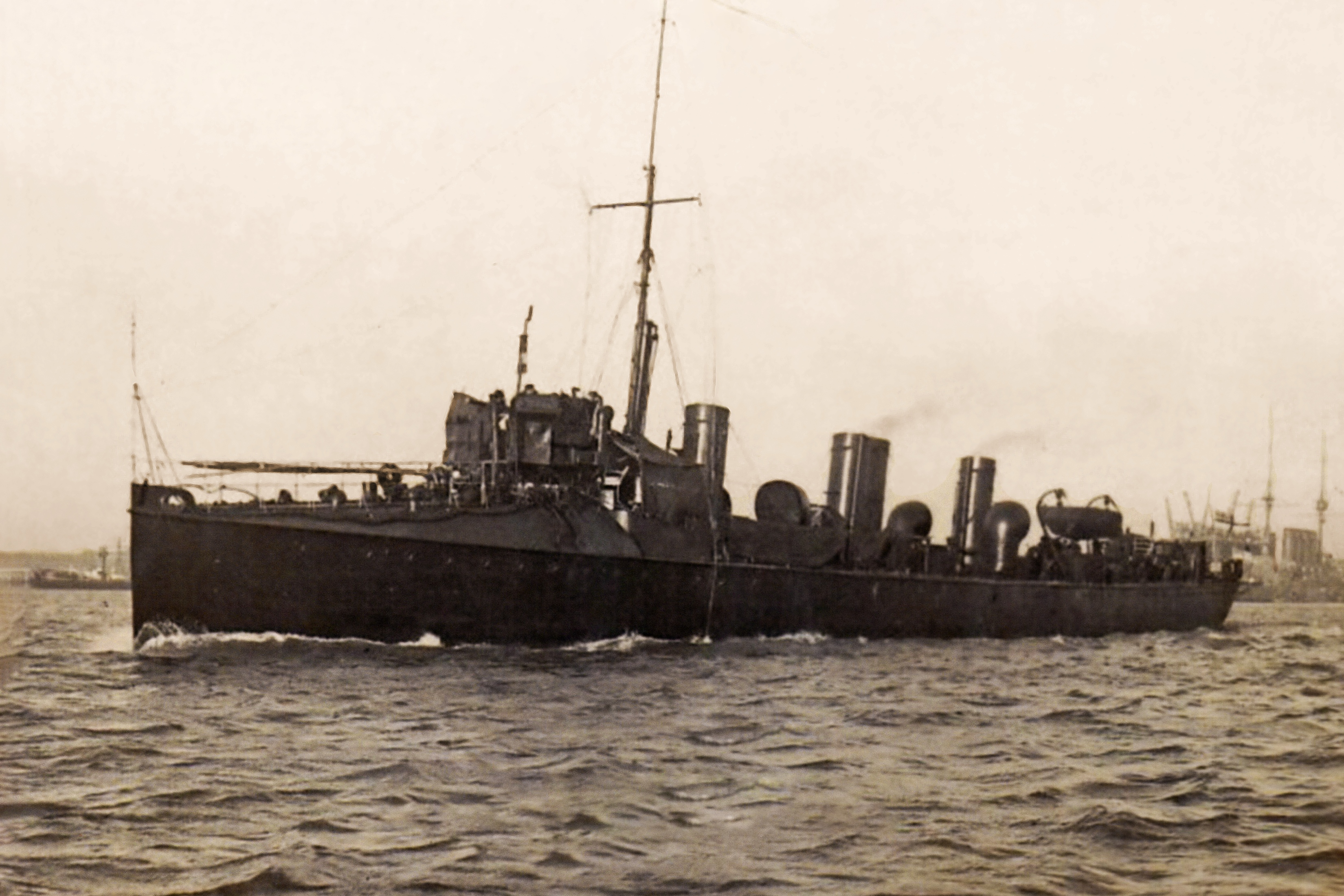 Anonymous photograph of HMS Spiteful (1899) under way. That the ship is painted black and has a shield for the after steering position indicates that the photograph was probably taken very early in her career – she was completed in February 1900 – and certainly no later than 1905: an "as fitted" plan of September that year shows the shield as removed.[1] Although the top of Spiteful's mast is omitted in this image, comparison with other, contemporary photographs of similar ships, for example at Lyon, D. (2005), The First Destroyers, p. 80, indicates that the tail of a Royal Navy pennon flying from the top of the mast can be seen just behind it. Given its length, this may be a commissioning pennant. Spiteful's round-topped, "turtleback" forecastle was a common feature on Royal Navy ships of its type at the time. The spars carried lengthwise on her forecastle are boat hooks (compare Lyon (2005), p. 99).